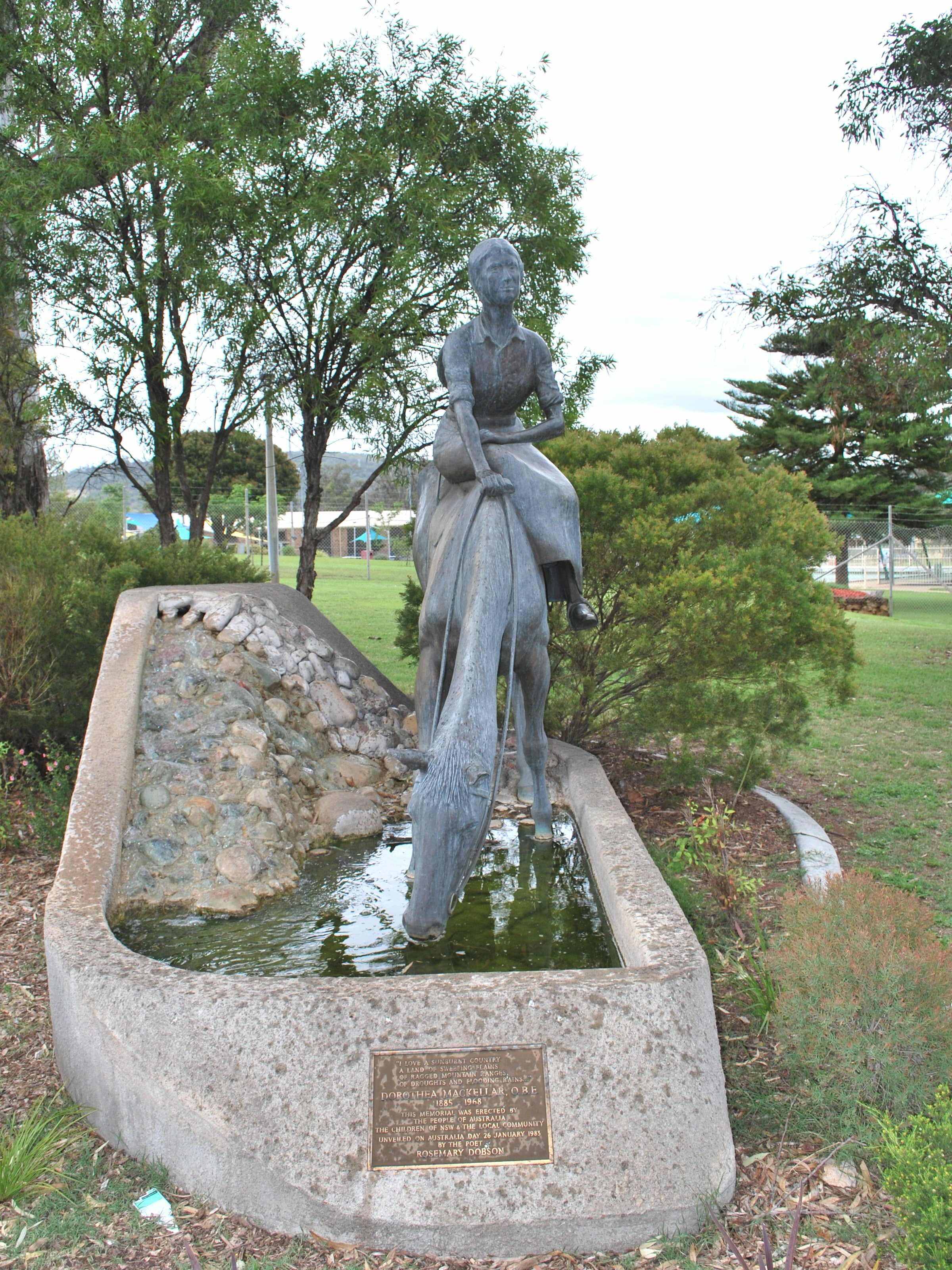 Statue of Dorothea Mackellar at Gunnedah, New South Wales